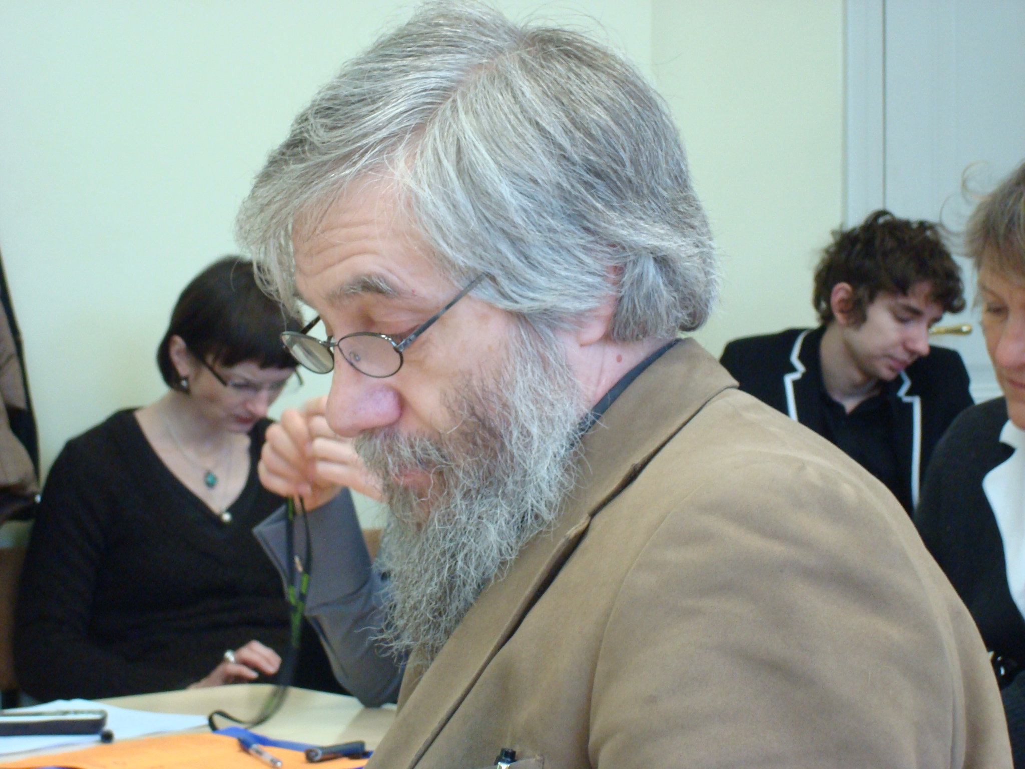 Mikhail Lotman (born 1952) is an Estonian literature researcher and politician